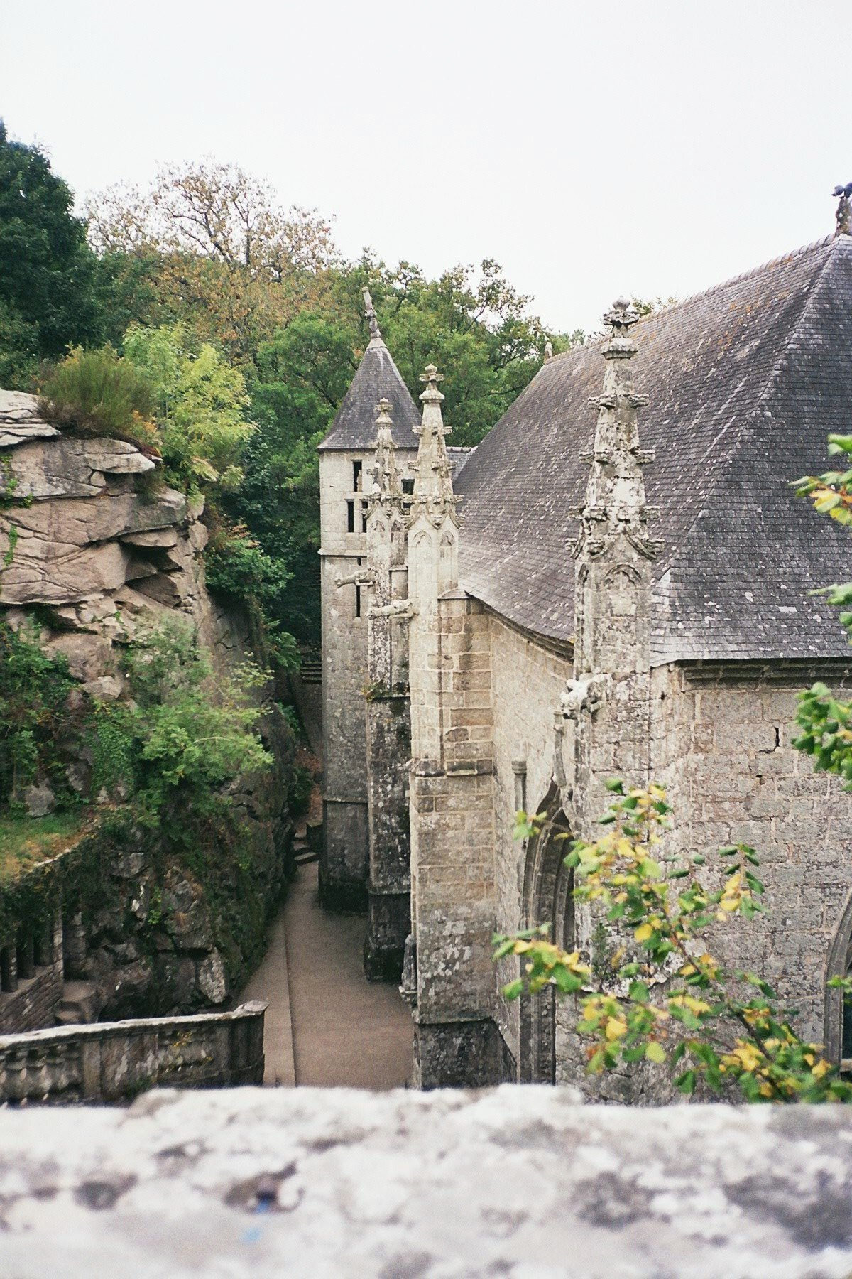 The Chapel of St. Barbara on a hilltop overlooking the river Ellé in the French municipality of Le Faouët, Morbihan Departement.